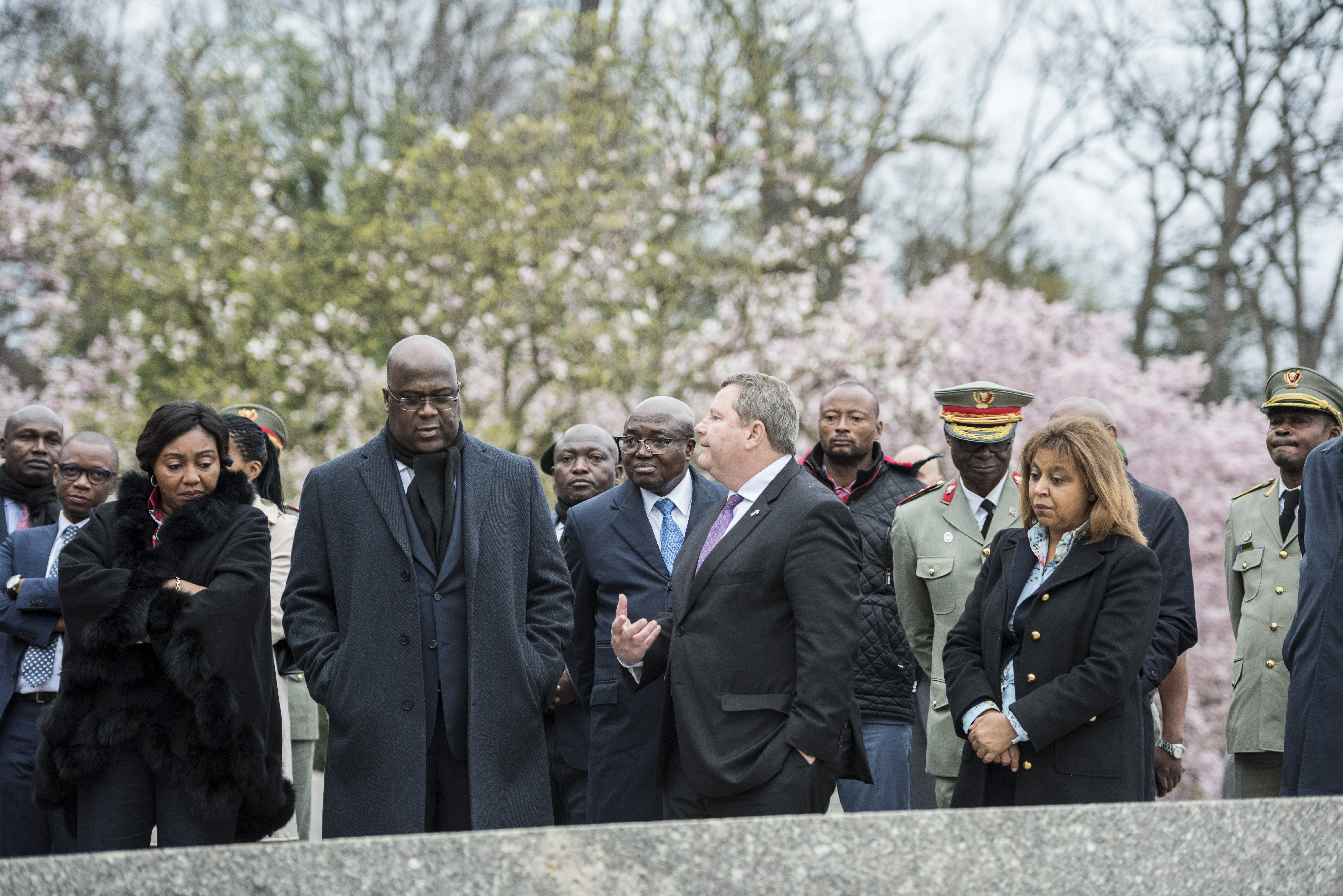 President of the Democratic Republic of the Congo Felix Tshisekedi participates in an Armed Forces Full Honors Wreath-Laying Ceremony at the Tomb of the Unknown Soldier at Arlington National Cemetery, Arlington, Virginia, April 5, 2019. While at ANC, President Tshisekedi met with Karen Durham-Aguilera, executive director, Army National Military Cemeteries, toured the Memorial Amphitheater Display Room, and visited the JFK Eternal Flame. (U.S. Army photo by Elizabeth Fraser / Arlington National Cemetery / released)